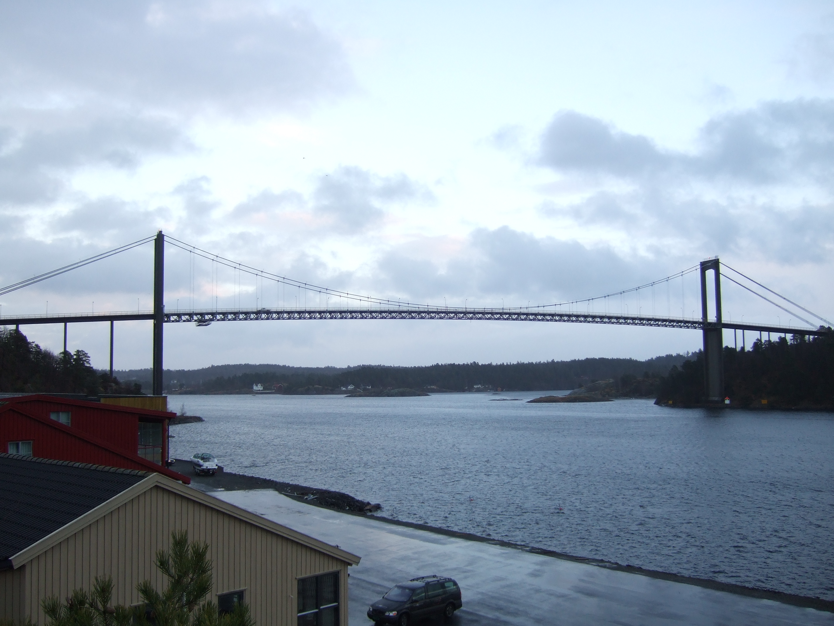 Tromoeybridge